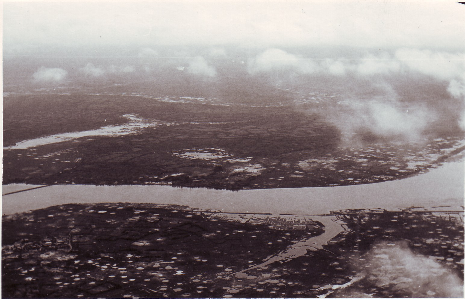 Looking across the Ben Hai River into North Vietnam.